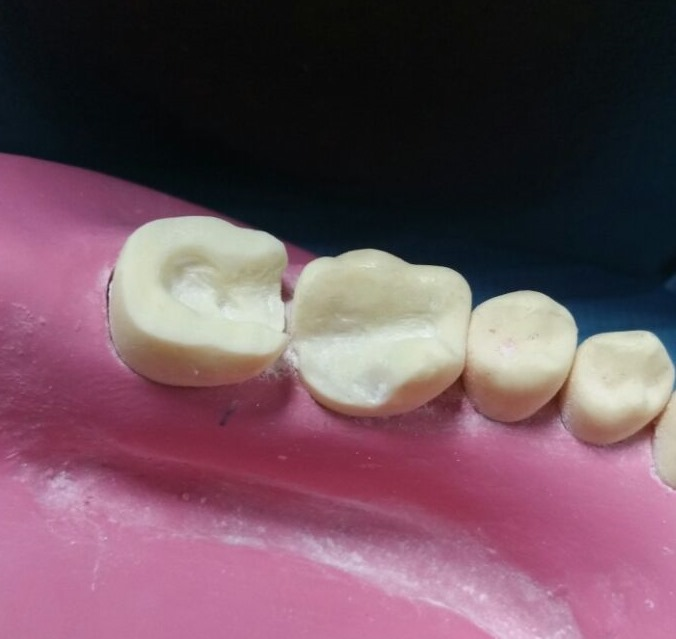 Inlay and Onlay preparation on a mannequin mandible.